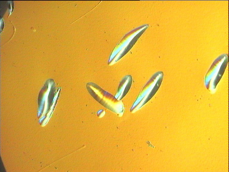 Title: Dislocations in Si crystal, orientation 100 Desc: Image of dislocations in Si crystal made using interference microscope with 500x magnification. Crystal orientation can be determined by the elliptical shape of dislocations. Author: Twisp Date: 24.08.2005